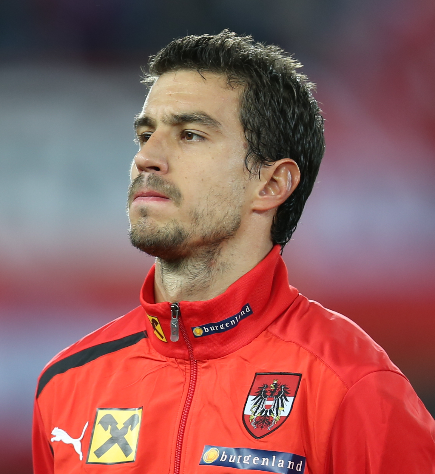 2014 FIFA World Cup qualification (UEFA), Group C: Republic of Ireland national football team at 10. September 2013 before the match against the Austria national football team in the Ernst-Happel-Stadion in Vienna. Here: György Garics, Austrian midfielder. The making of this work was supported by Wikimedia Austria. For other files made with the support of Wikimedia Austria, please see the category Supported by Wikimedia Österreich.